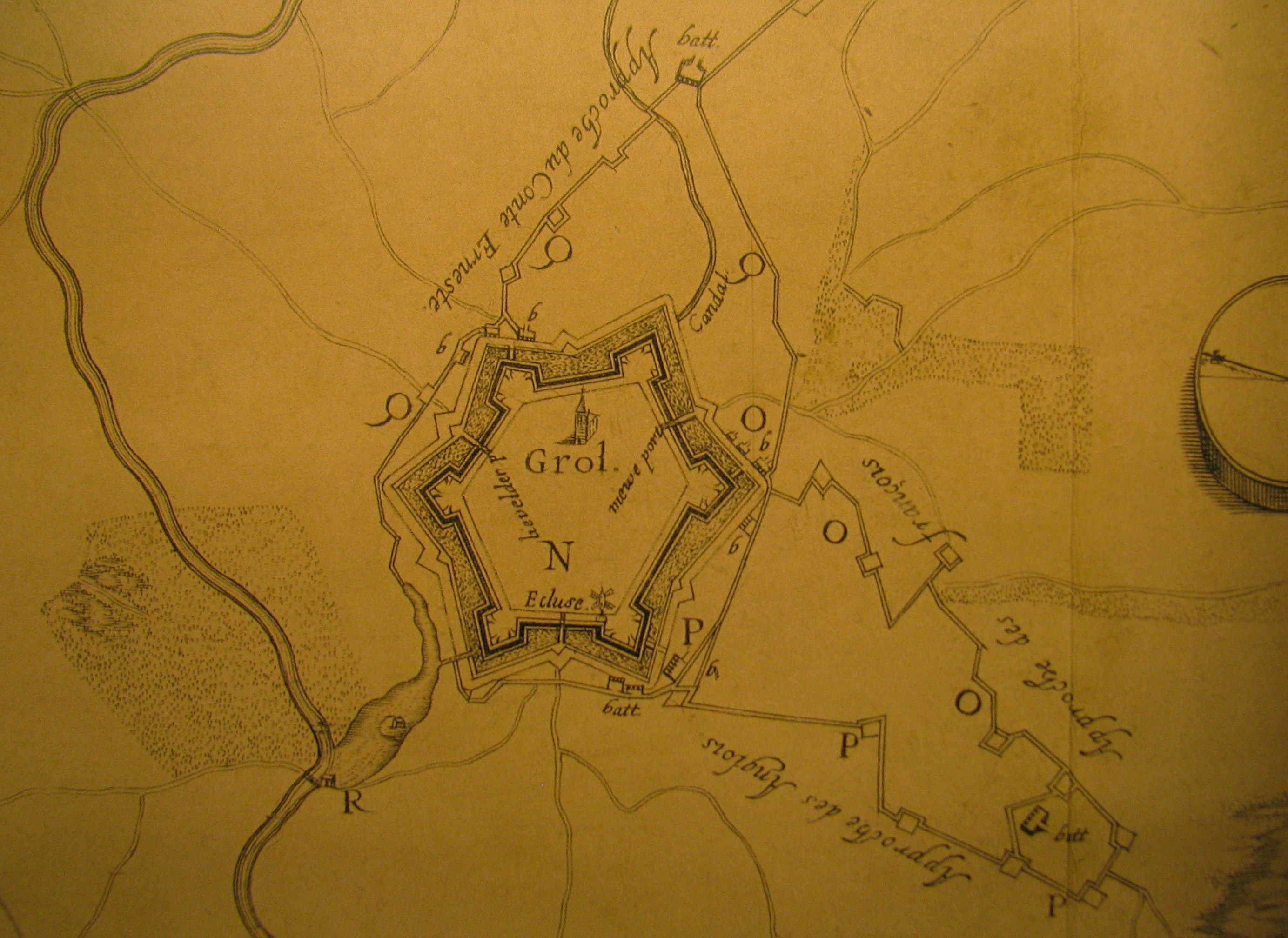 The siege of Grol (Groenlo) of 1627: detail of a map by Hondius, showing the 'approches' that have been dug towards the city of Grol.